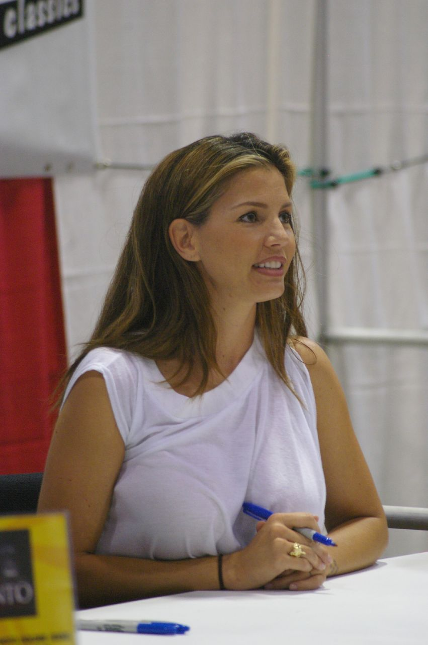 Charisma Carpenter (Cordelia Chase from Angel/Buffy) at the Fan Expo 2007 Convention in Toronto